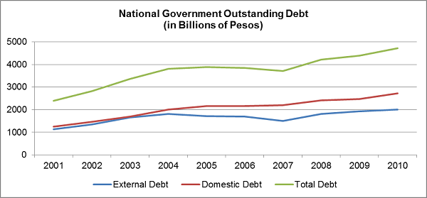 A graph showing the Philippines' total debt from 2001-2010